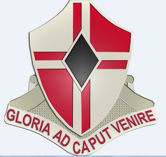 92nd Engineer Battalion Unit Crest, Fort Stewart, Georgia. The Battalion insignia - The four points of the diamond represent the four campaigns in which the Battalion participated during World War II. The cross is symbolic of the royal arms of Italy, the country in which the four campaigns took place. The colors of the crest, scarlet and white, are the colors of the Army Corps of Engineers. GLORIA AT CAPUT VENIRE is the battalion motto and translated means GLORY IN ACHIEVEMENT. The distinctive unit insignia was approved on 19 January 1956.